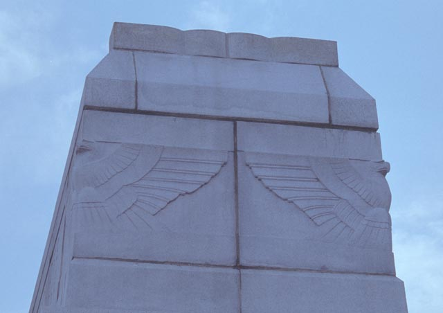 Art deco eagle detail Howard S Shubs, 2007-07-06